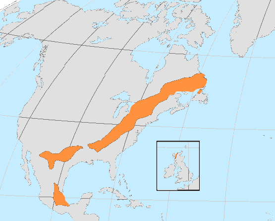 Extent of the Grenville orogenic belt in North America and Scotland, after Tollo et al, 2004